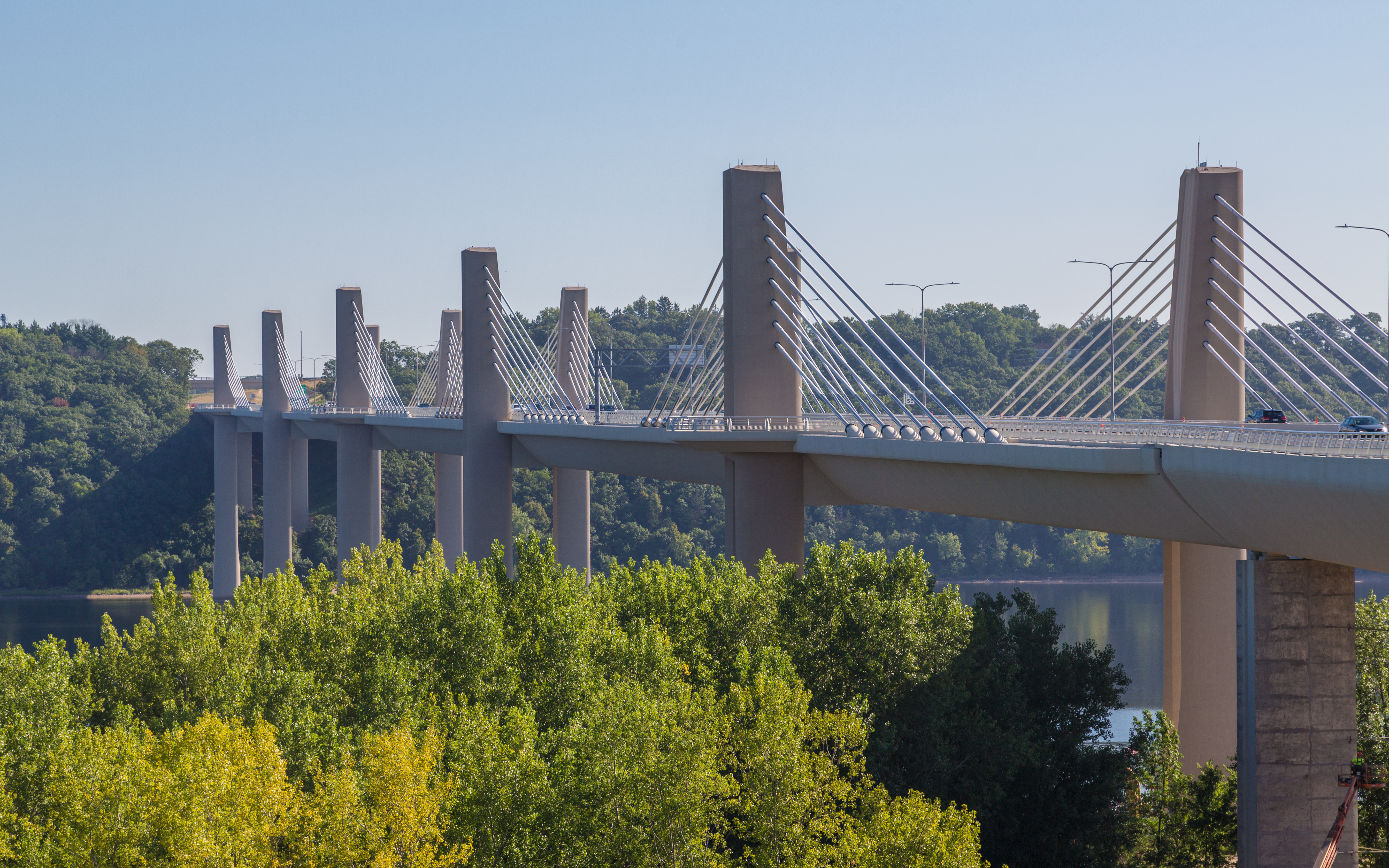 The St. Croix Crossing bridge connecting Oak Park Heights, Minnesota, and St. Joseph, Wisconsin, over the Saint Croix River.